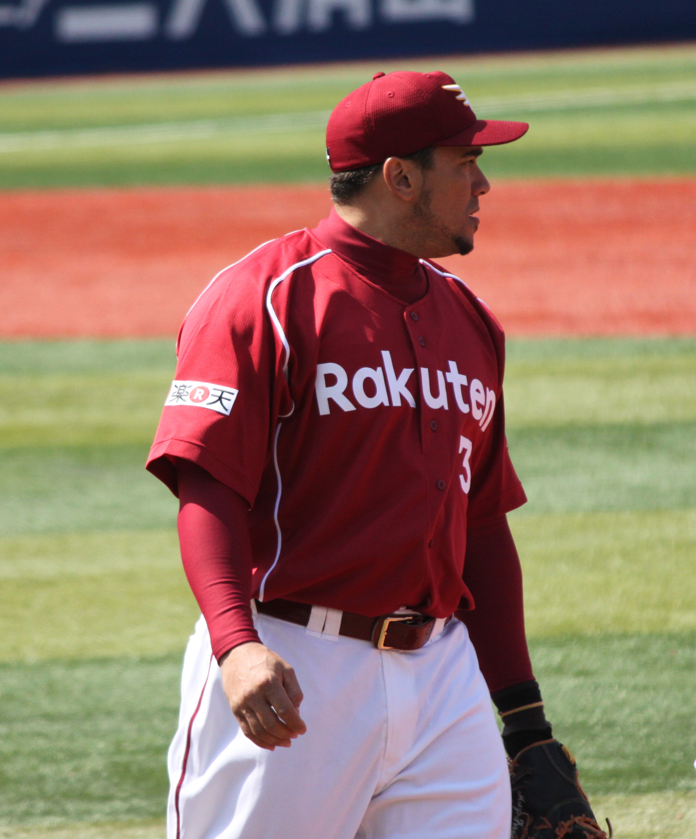 José Fernández, infielder of the Tohoku Rakuten Golden Eagles, at Yokohama Stadium.